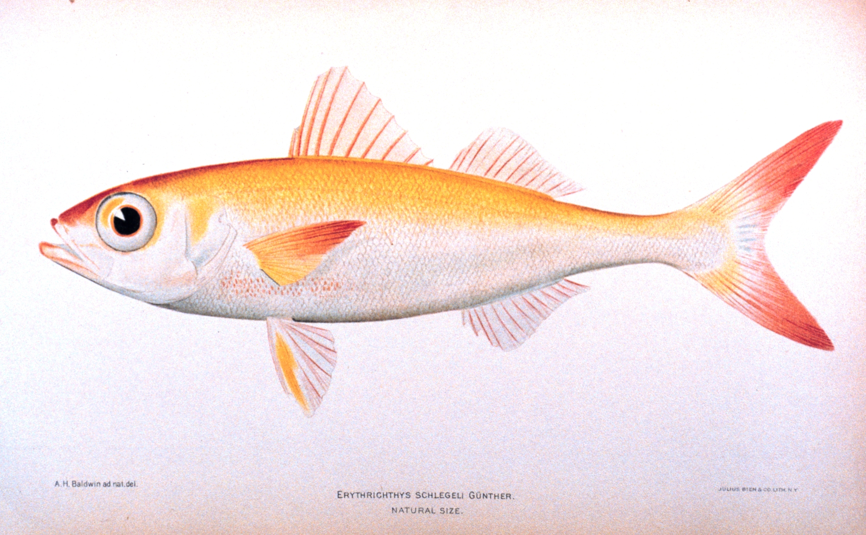 Erythrichthys schlegeli (=Erythrocles schlegelii) Gunther. In: "The Shore Fishes of the Hawaiian Islands, with a General Account of the Fish Fauna", by David Starr Jordan and Barton Warren Evermann. Bulletin of the United States Fish Commission, Vol. XXIII, for 1903. Part I. P. 574, Plate XIX.